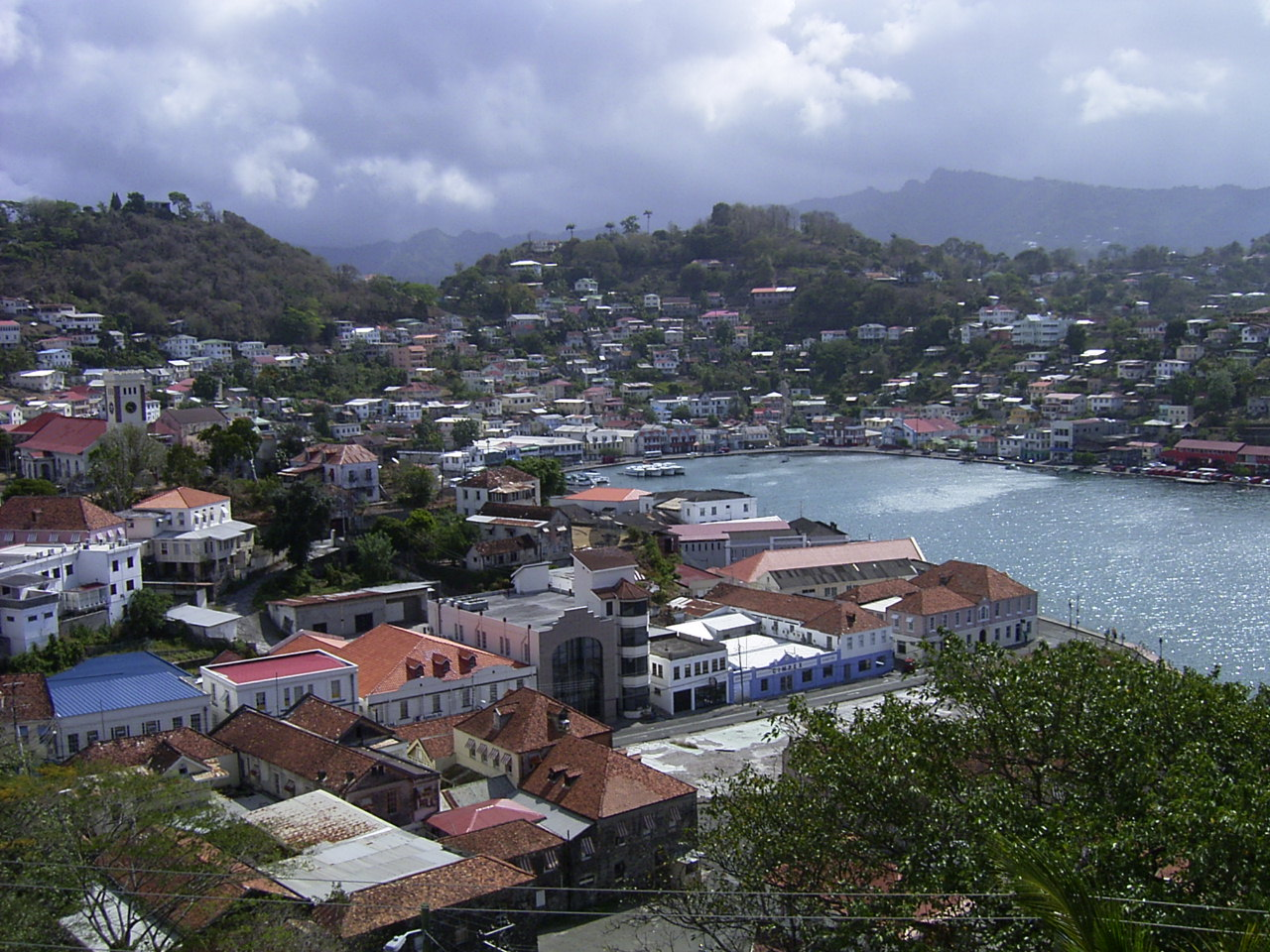 St. George´s